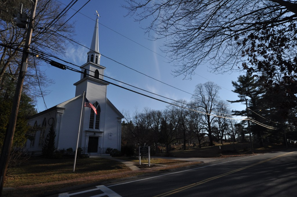 North Community Church and cemetery, Marshfield Hills, Marshfield, Massachusetts